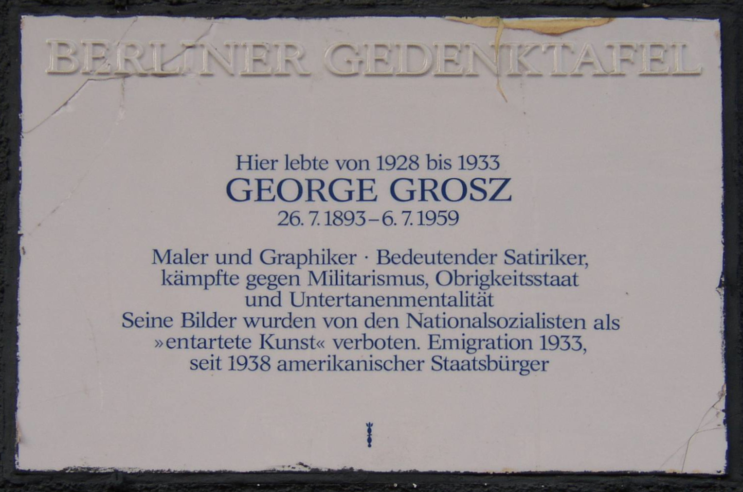 Berlin memorial plaque for George Grosz in Berlin-Wilmersdorf, Germany